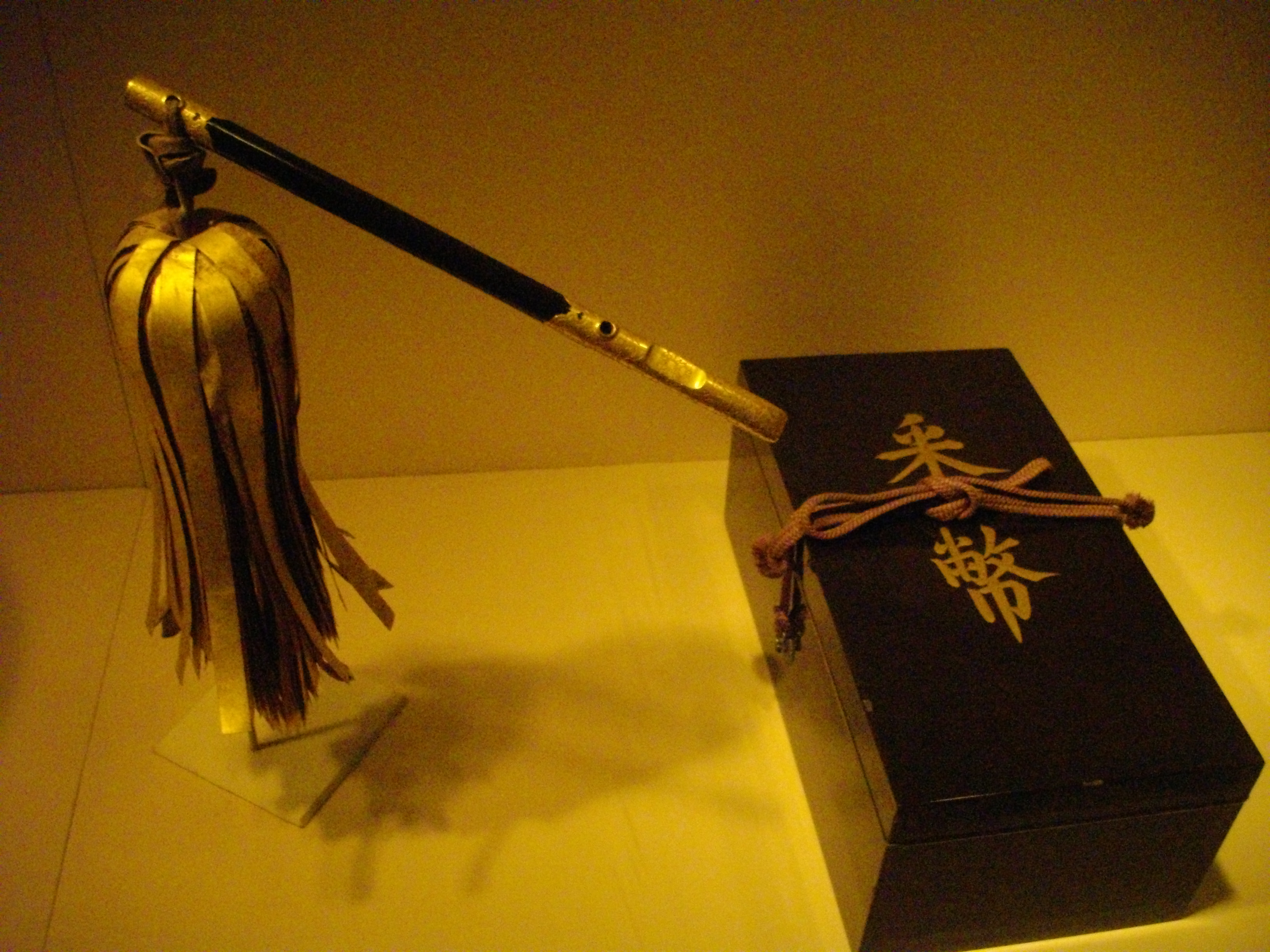 Antique Japanese (samurai) saihai (commanders baton), Metropolitan Museum.